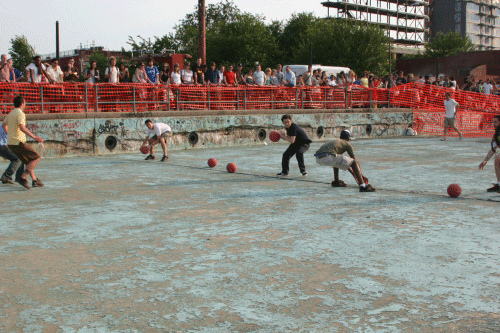 Dodgeball at McCarren Pool Animated version